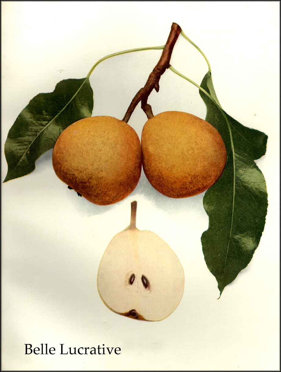 A colour plate from The Pears of New York (1921) depicting the Belle Lucrative pear cultivar.